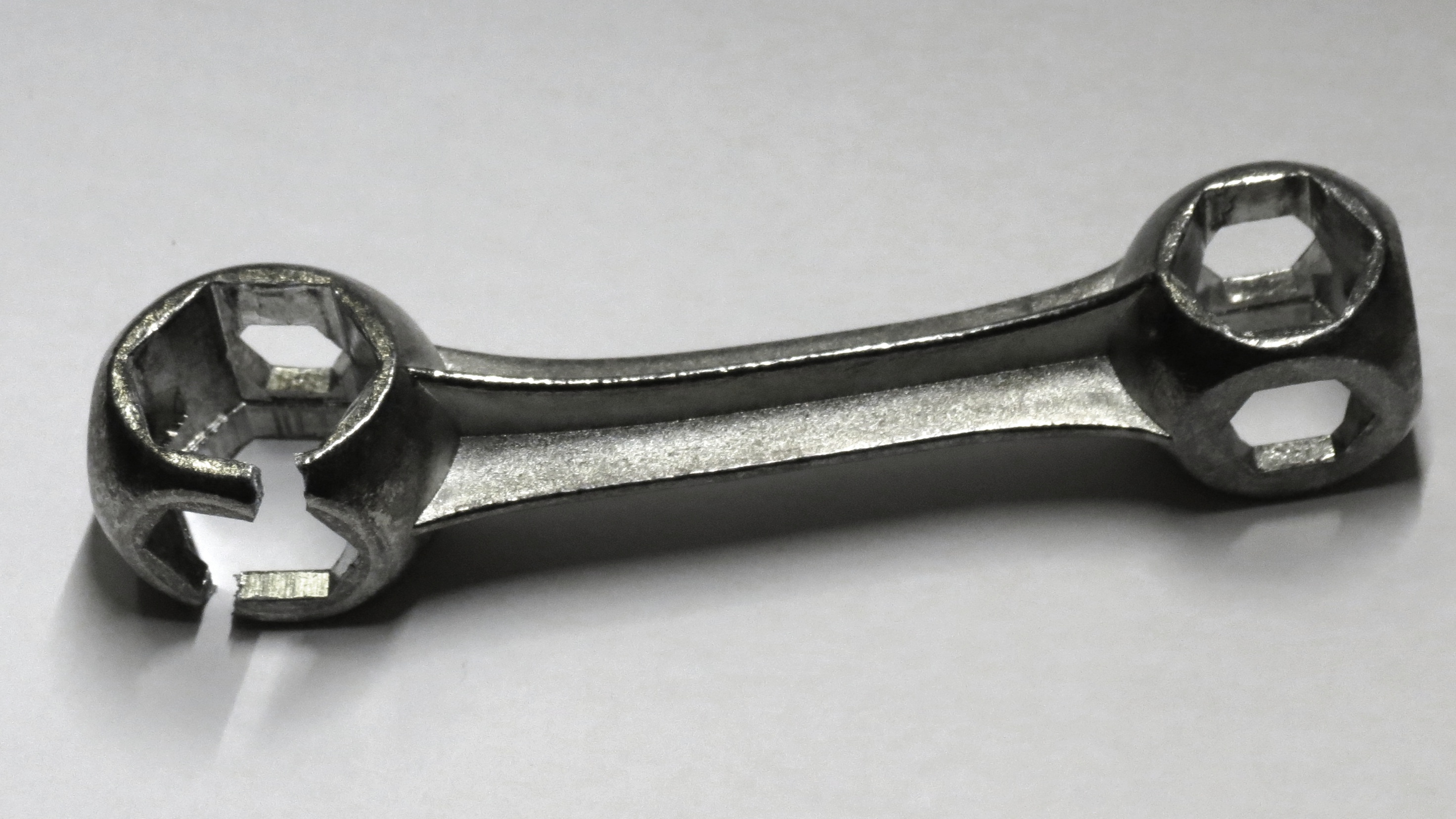 Broken dog bone wrench